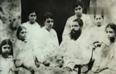 Upendrakishore Ray Chauduri, His wife and six childrens